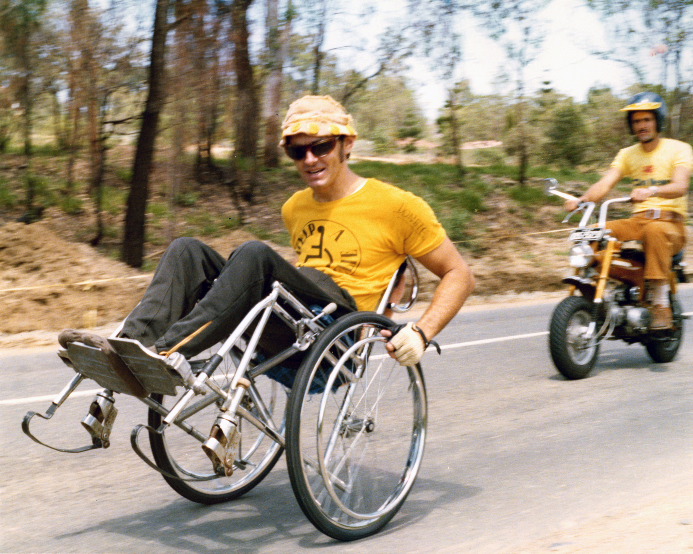 2Australian Paralympian Tony South on two wheels during a long distance fundraising push for wheelchair sports in 1975